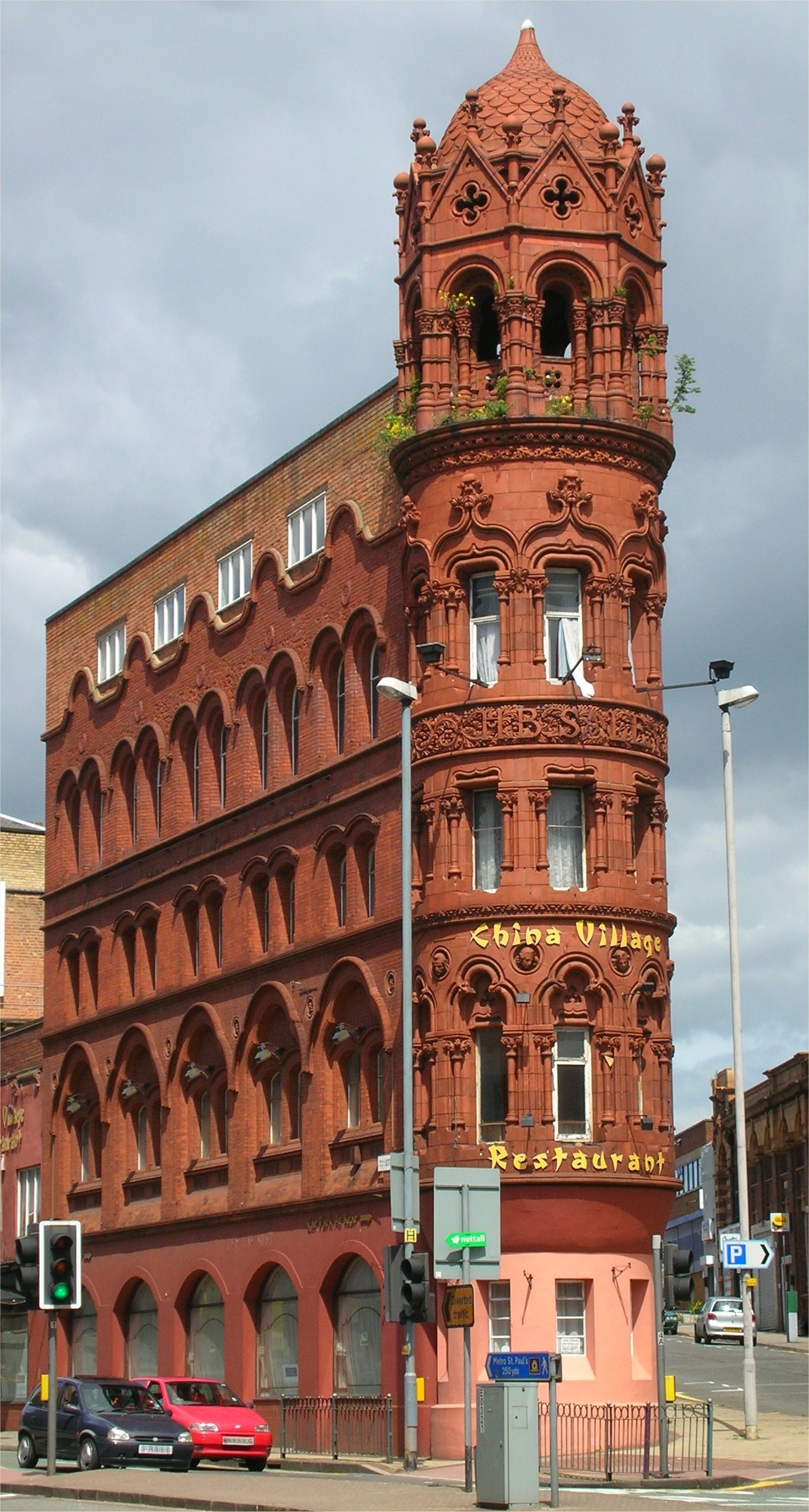 1-7 Constitution Hill — in Birmingham, England. Offices and workshops for H. B. Sale, 1896. Red brick and terracotta. Architects William Doubleday & Shaw.